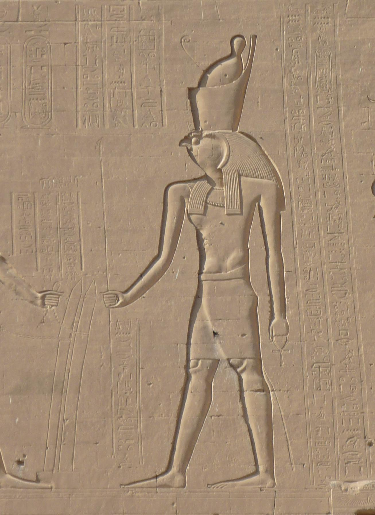 Wall relief of Horus on pylon, temple of Edfu, Egypt